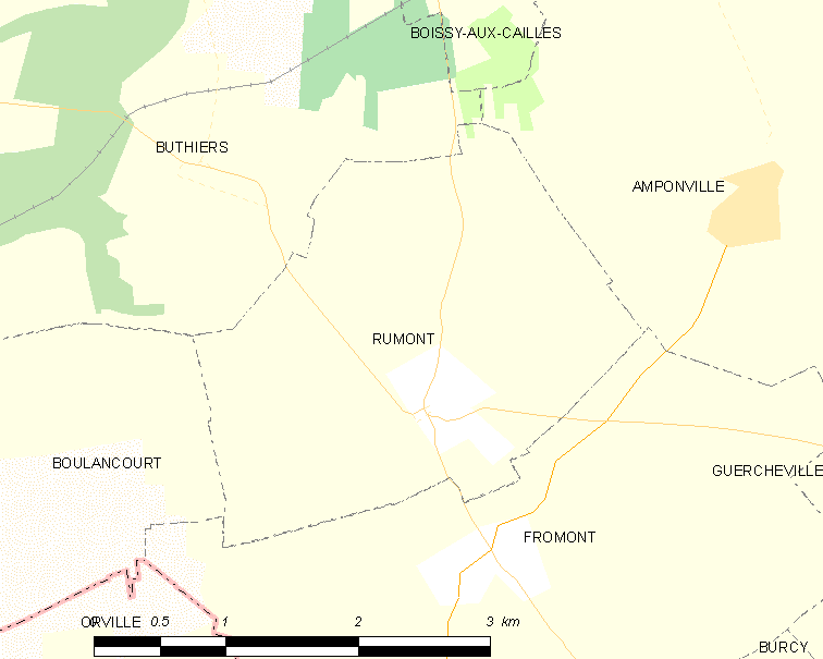 Map of French municipality Rumont